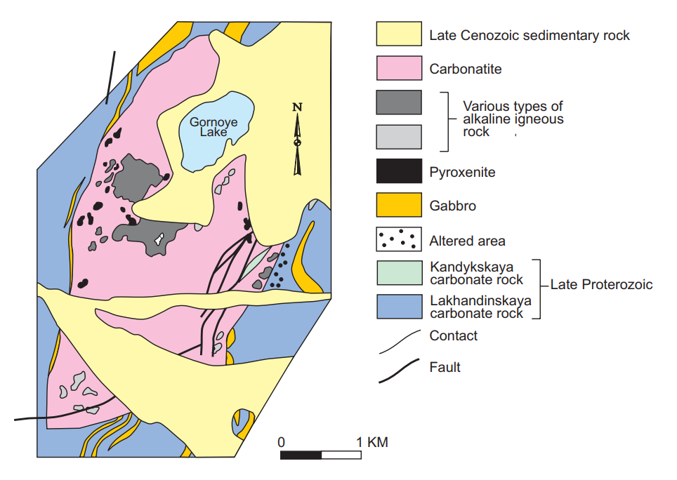 Gornoye Ozero geologic map